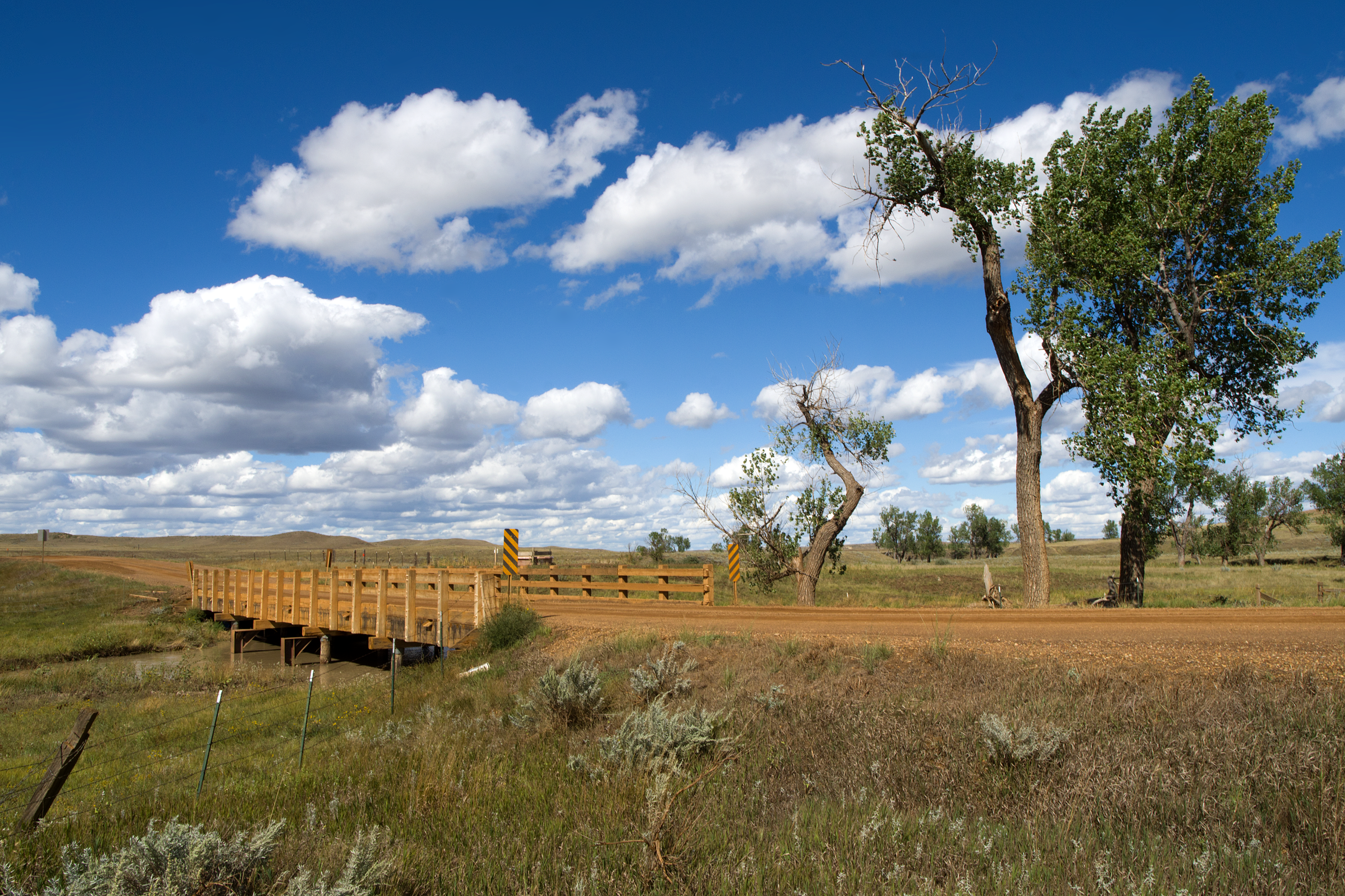 Cottonwood Creek BridgeThe NRHP number does not appear in the NRHP database.